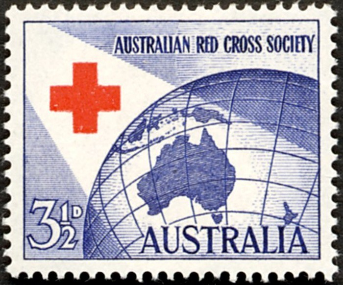 A postage stamp of Australia issued 1954